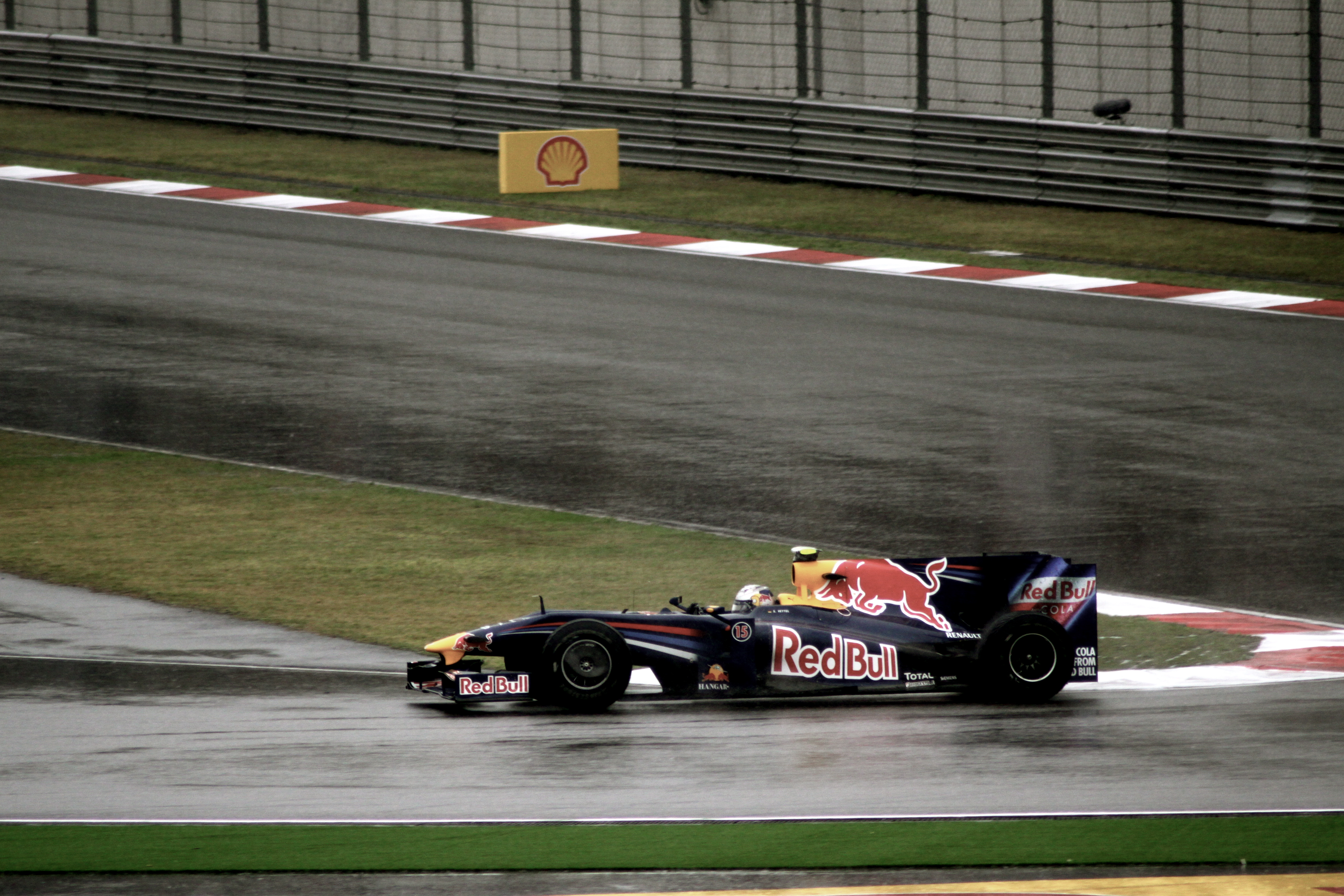 Red Bull 2 China 09